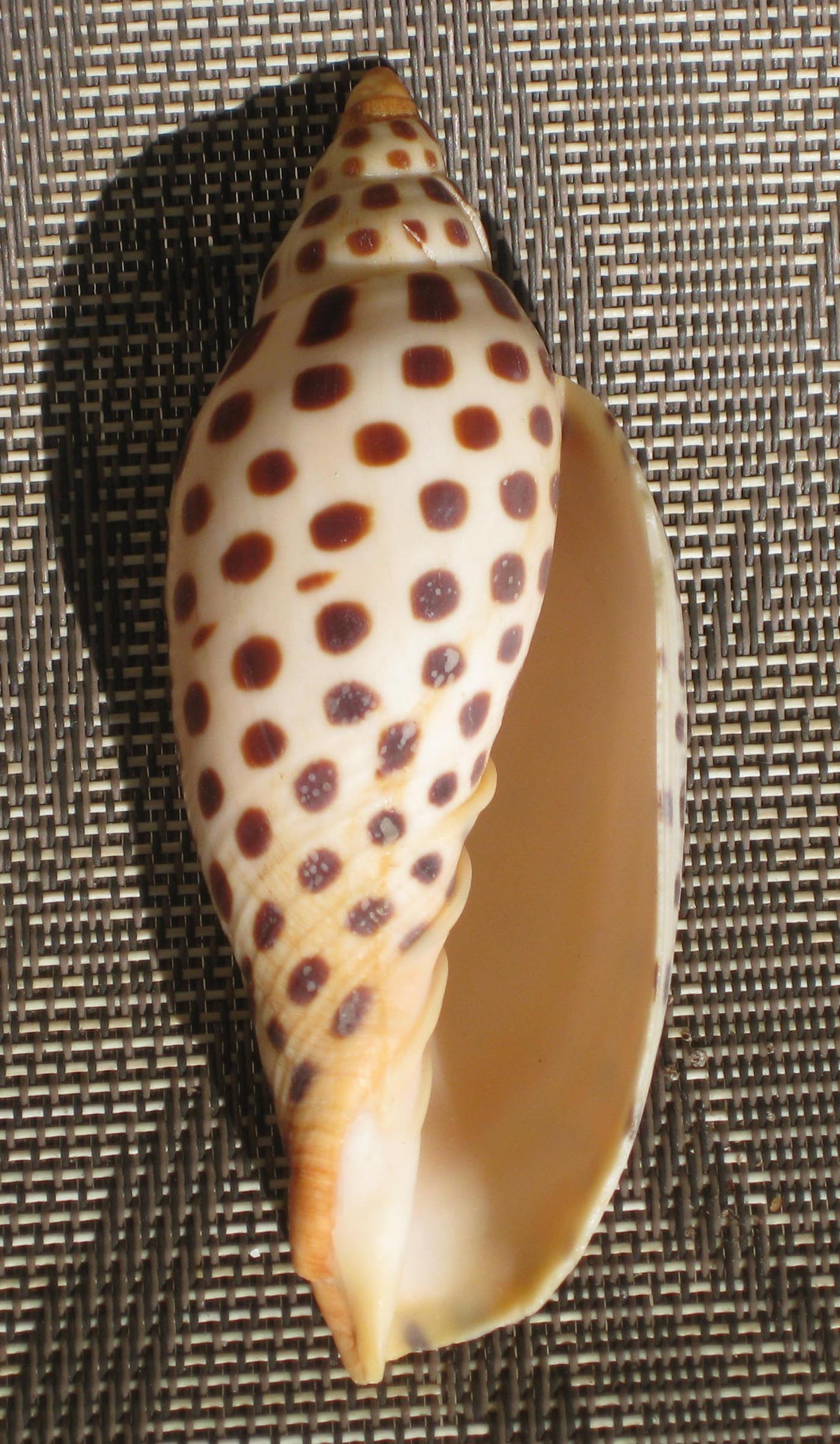 A shell of the volute gastropod Scaphella junonia trawled by a shrimp boat off of the SW coast of Florida. Shell approximately 11 centimeters long, 4.5 centimeters wide.